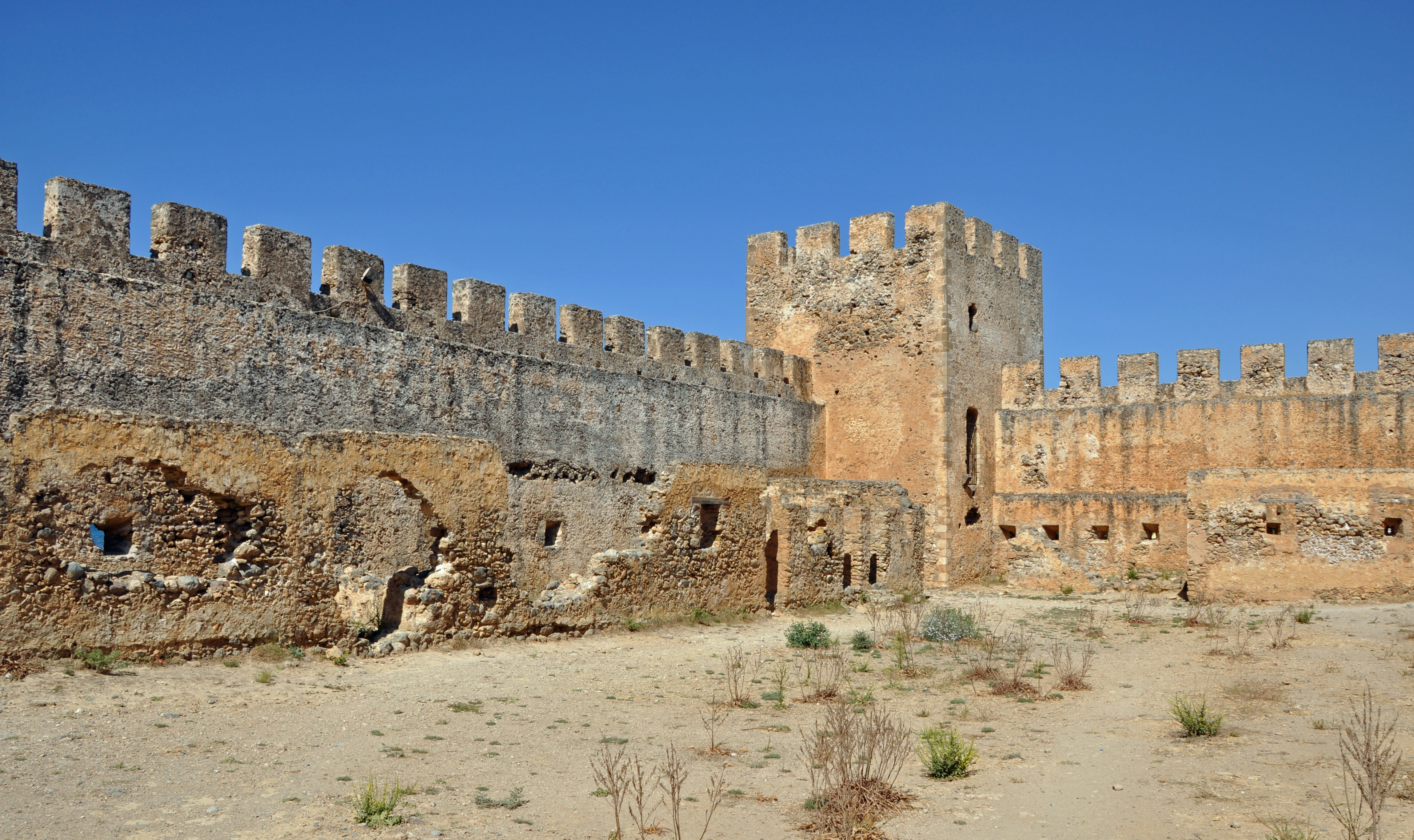 Frangokastello (Crete, Greece): the Venetian castle